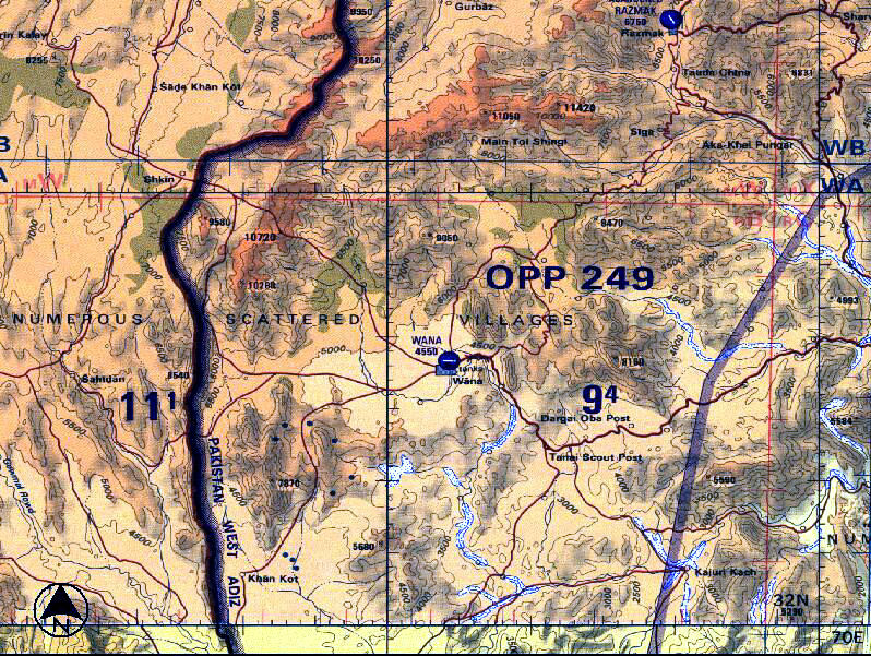 NGA Tactical Pilotage Chart; scale 1-500,000; Wana and the border with Afghanistan, Waziristan Province, Pakistan